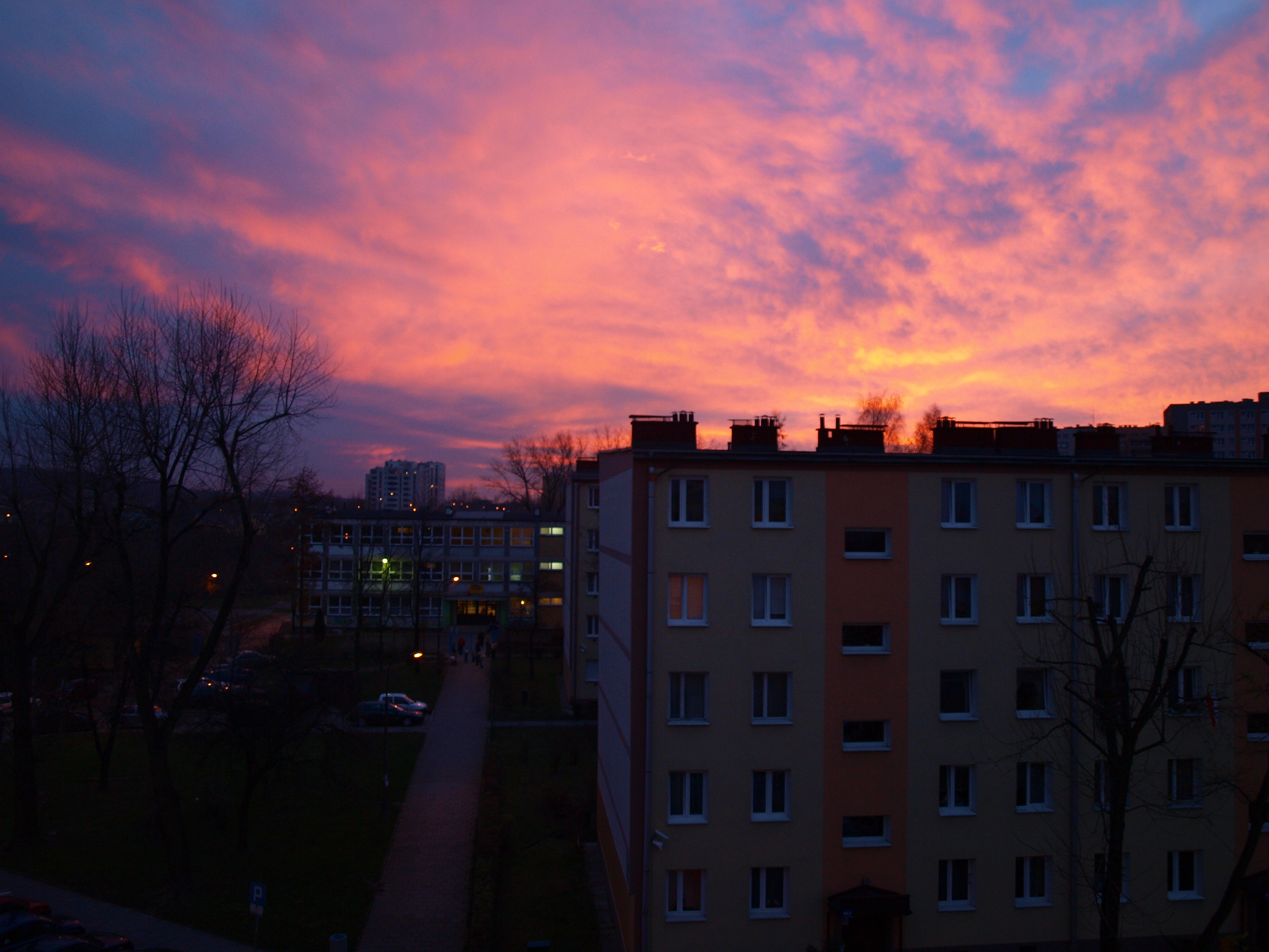 Afterglow